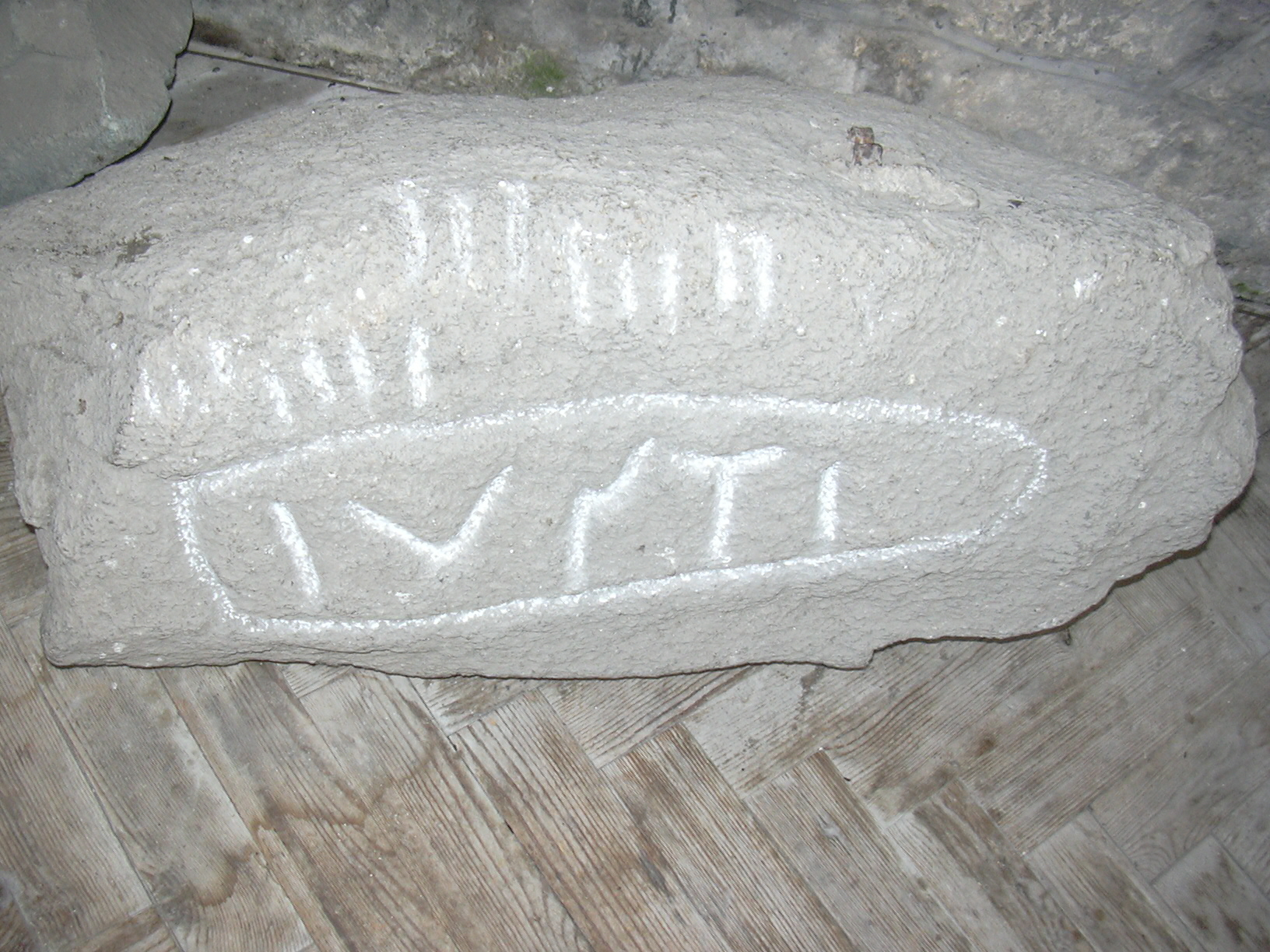 St Kew - Ogham stone in St James's church. Exact description of the St Kew Stone